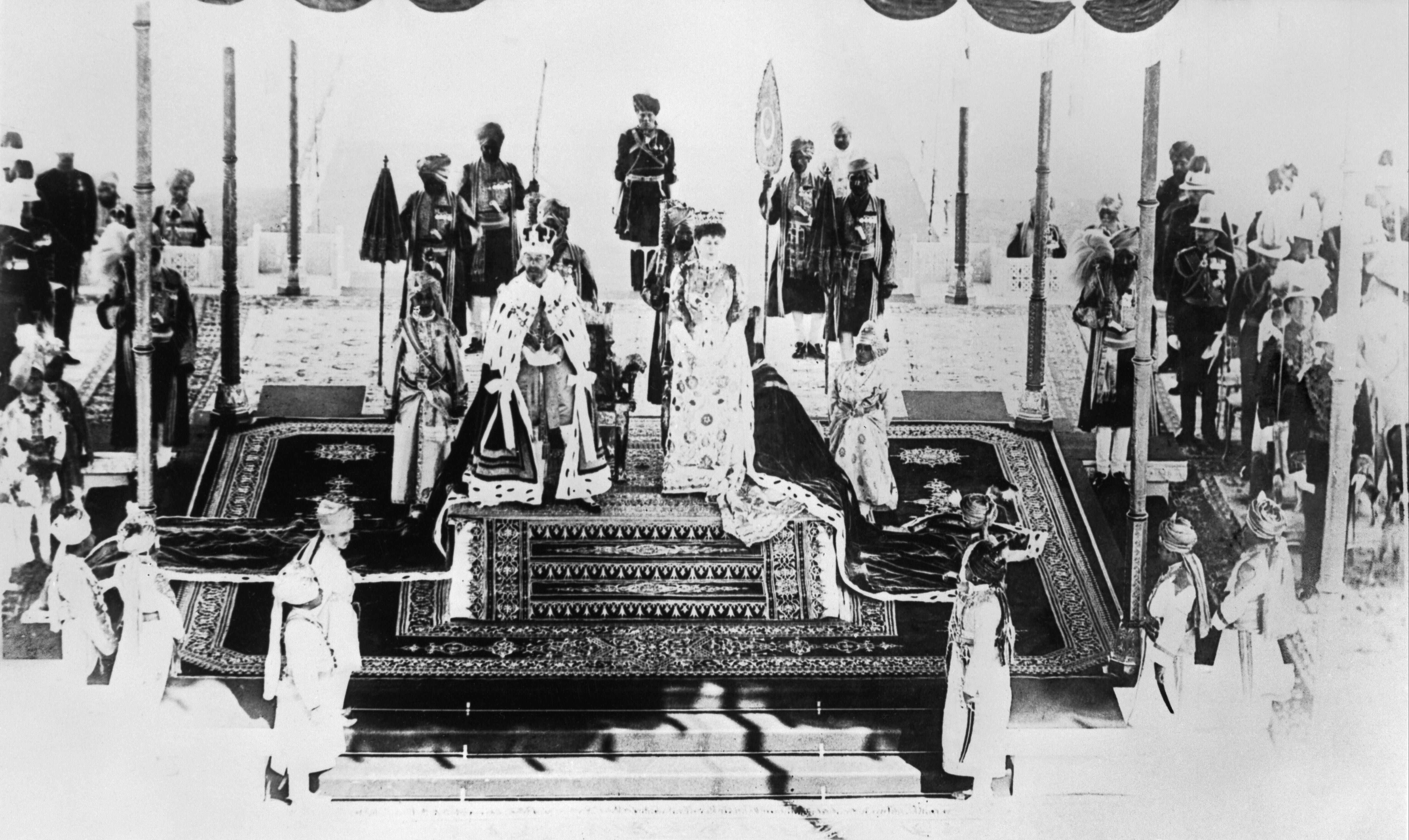 India Before the First World War King George V and Queen Mary during the Delhi Durbar, the ceremony at which people of note in India came to pay tribute to the new Emperor and Empress of India following their coronation in Britain, in 1911. The King wears the newly made Imperial Crown of India and both wear their Coronation robes. The Crown had to be made specifically for the occasion as the Imperial State Crown could not be legally removed from Britain.